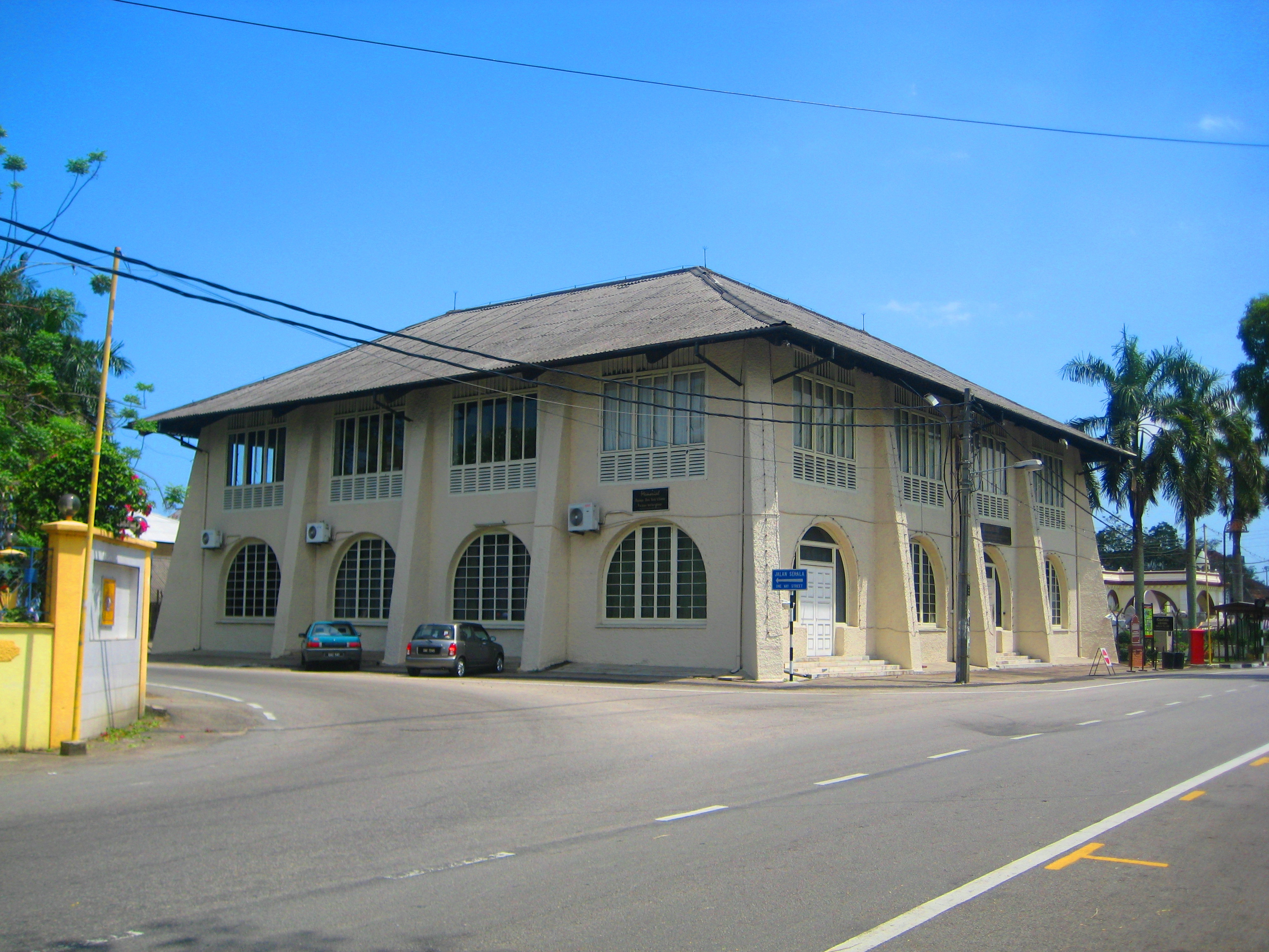 World War II Memorial at Kota Bharu, Kelantan, MALAYSIA